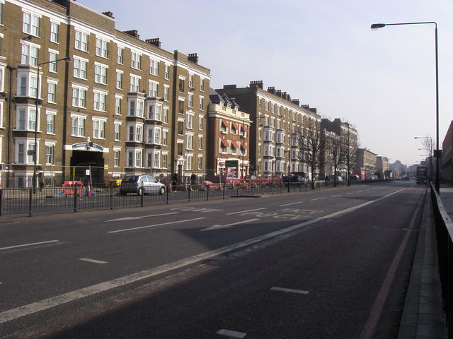 Old Kent Road Old Kent Road heading out of London at Bricklayers Arms